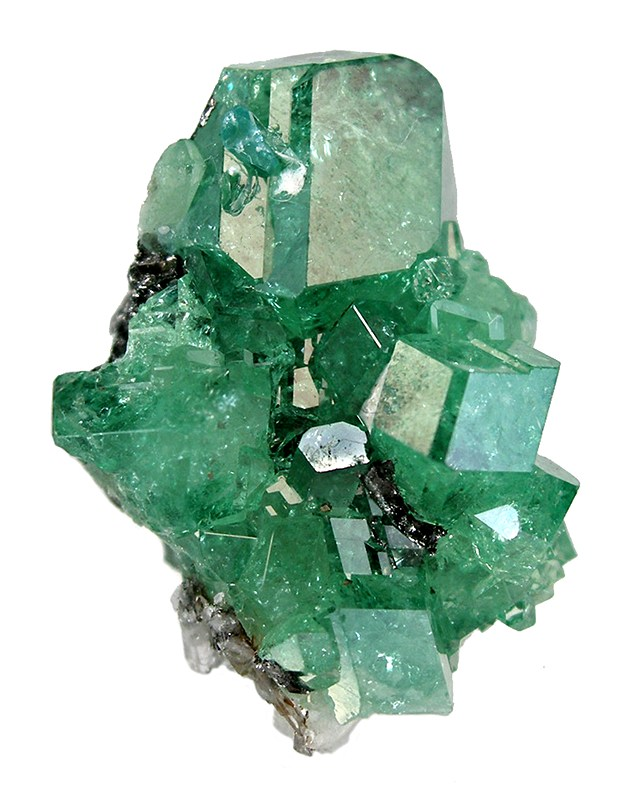 Graphite, Grossular Locality: Merelani Hills (Mererani), Lelatema Mts, Arusha Region, Tanzania (Locality at ) Size: thumbnail, 2.3 x 1.7 x 1.6 cm Tsavorite with Graphite This is a superb, stunningly attractive cluster of gemmy, emerald green grossular var. tsavorite on lustrous, black graphite with minor pyrite. The largest tsavorite measures 1.0 cm in length and the cluster weighs 31.37 carats.